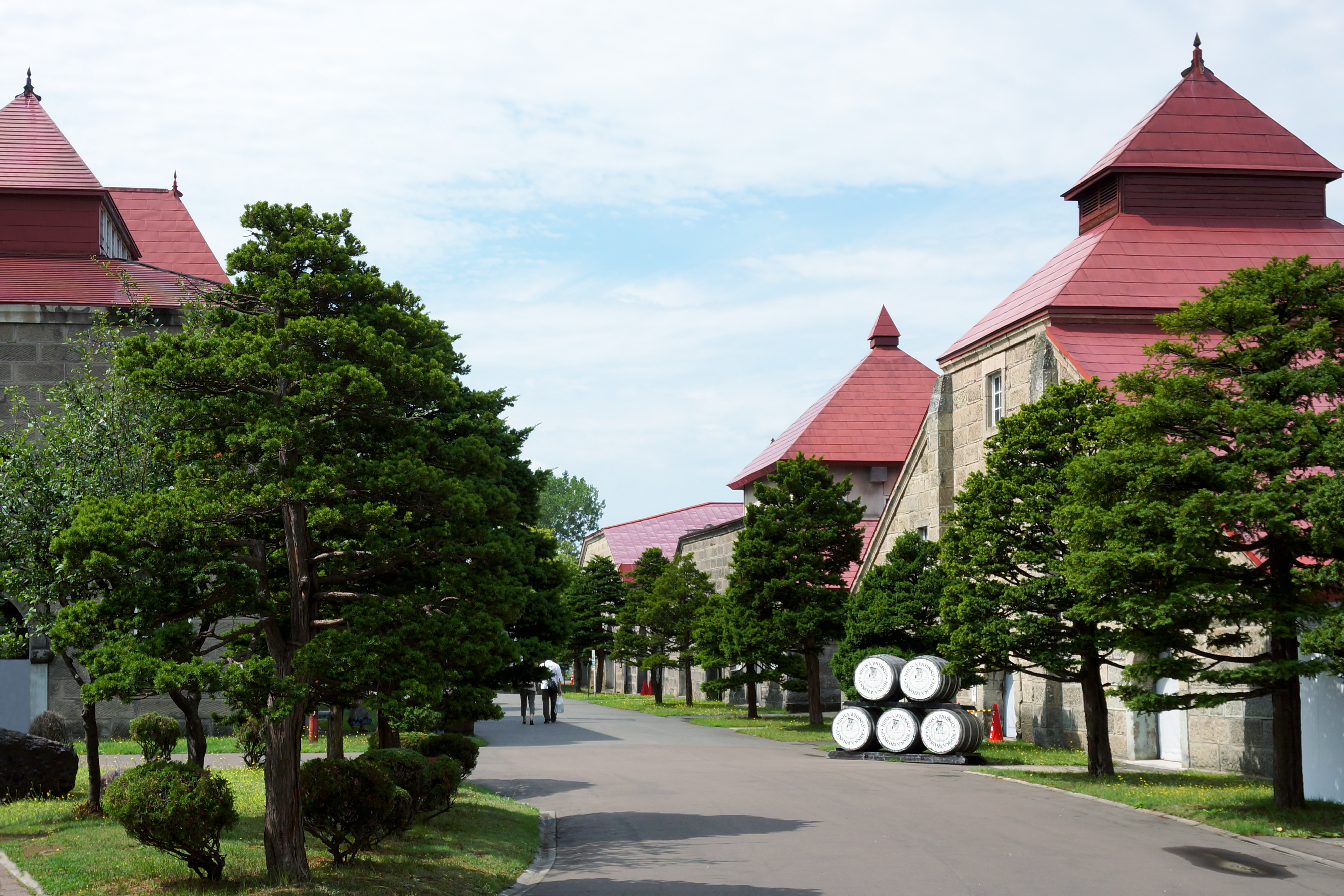 Nikka Wisky Yoichi Distillery in Yoichi, Hokkaido prefecture, Japan.